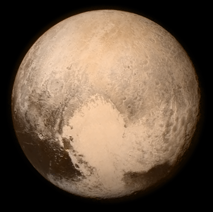 PLUTO - NEW HORIZONS - JULY 13, 2015 - FULL IMAGE CAPTION: Pluto nearly fills the frame in this image from the Long Range Reconnaissance Imager (LORRI) aboard NASA’s New Horizons spacecraft, taken on July 13, 2015 when the spacecraft was 476,000 miles (768,000 kilometers) from the surface. This is the last and most detailed image sent to Earth before the spacecraft’s closest approach to Pluto on July 14. The color image has been combined with lower-resolution color information from the Ralph instrument that was acquired earlier on July 13. This view is dominated by the large, bright feature informally named the “heart,” which measures approximately 1,000 miles (1,600 kilometers) across. The heart borders darker equatorial terrains, and the mottled terrain to its east (right) are complex. However, even at this resolution, much of the heart’s interior appears remarkably featureless—possibly a sign of ongoing geologic processes.